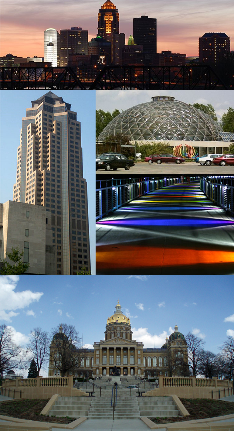 Montage of Des Moines.